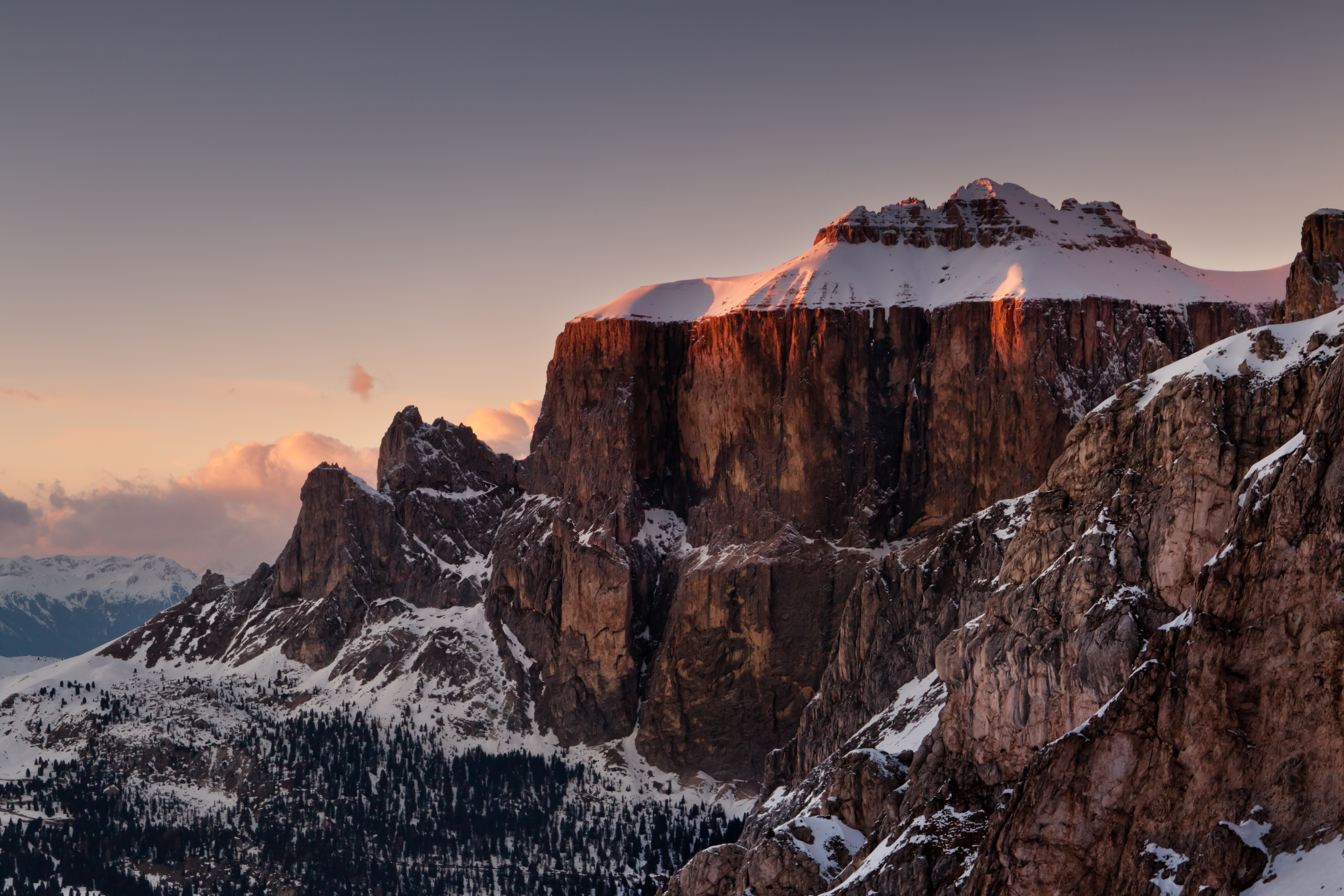 Sella group, Piz Ciavazes on the right, Torri del Sella (Sellatowers) on the left